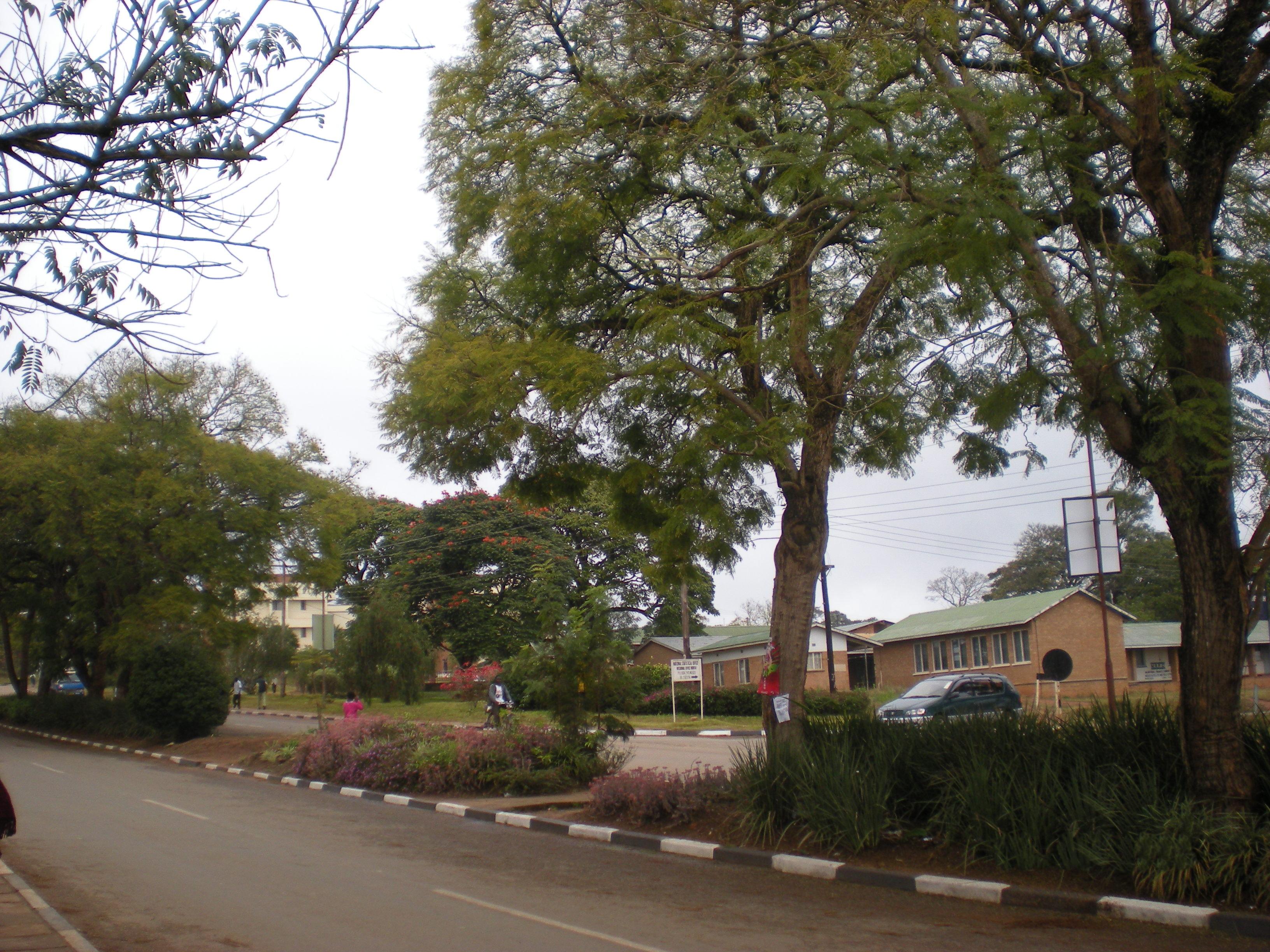 A street in Mzuzu